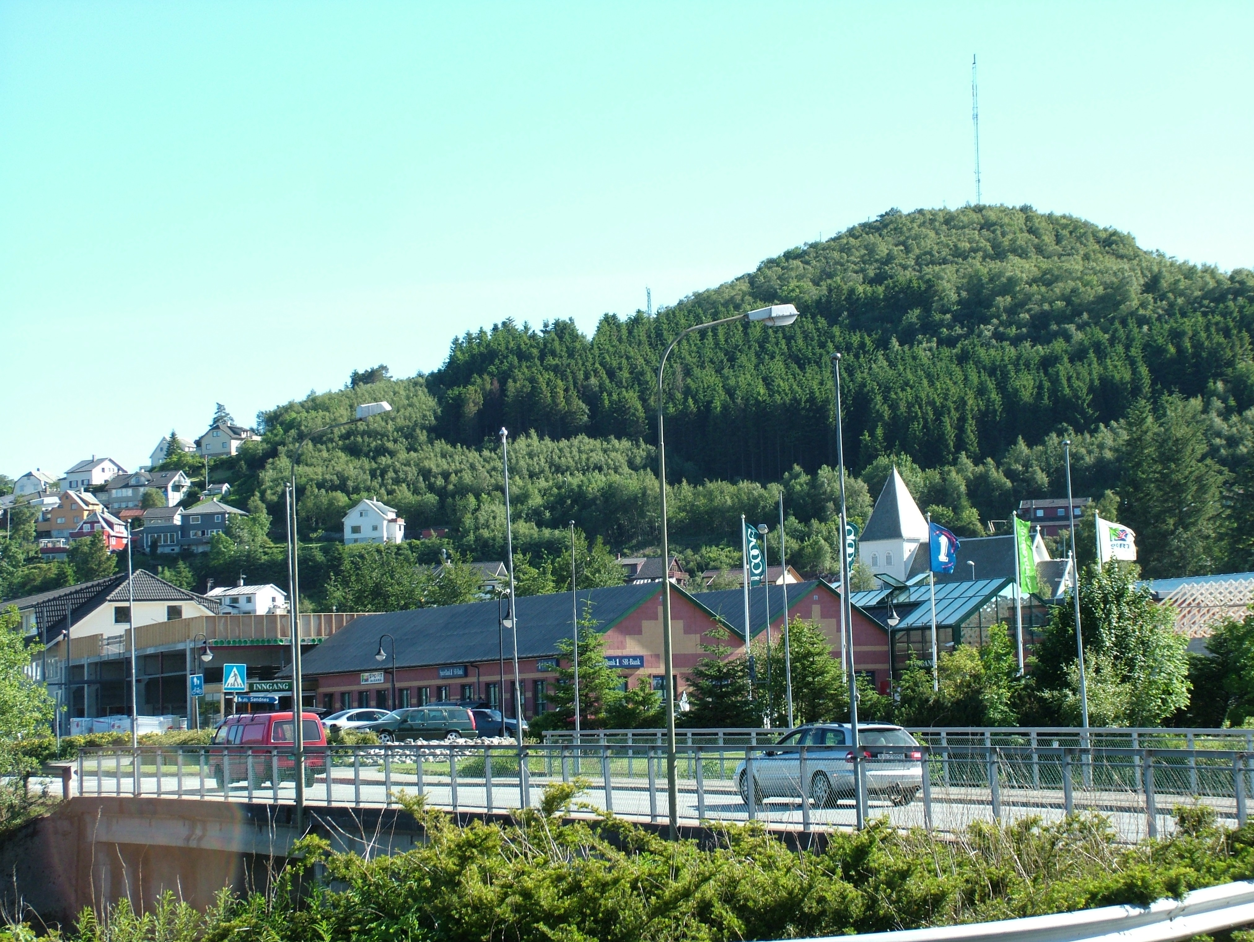 Gjesdal in Norway